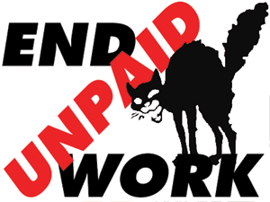 A graphic produced in 2012 by Solidarity Federation for it's campaign against the implementation of workfare in the UK.